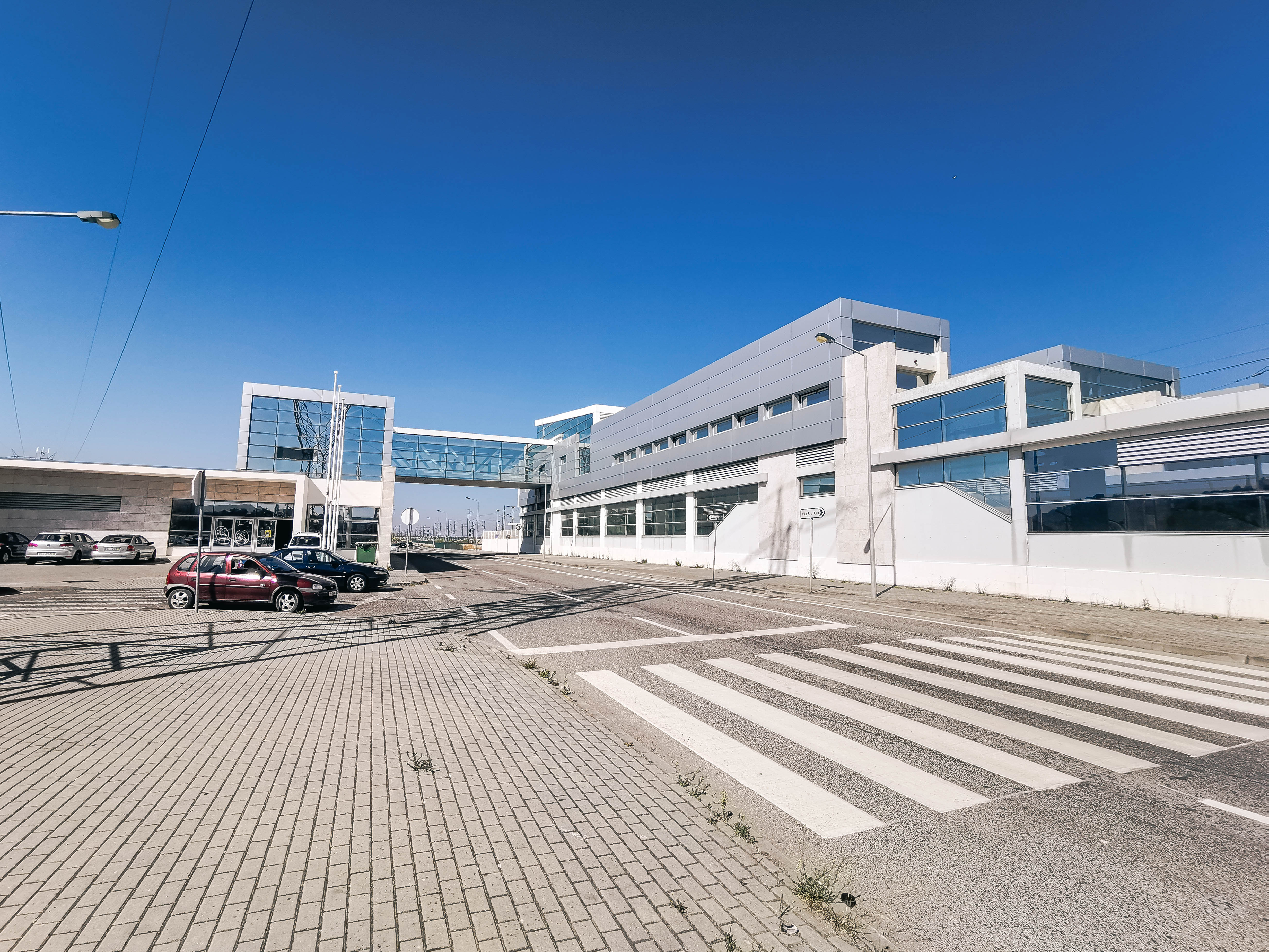 Castanheira do Ribatejo train station, Portugal